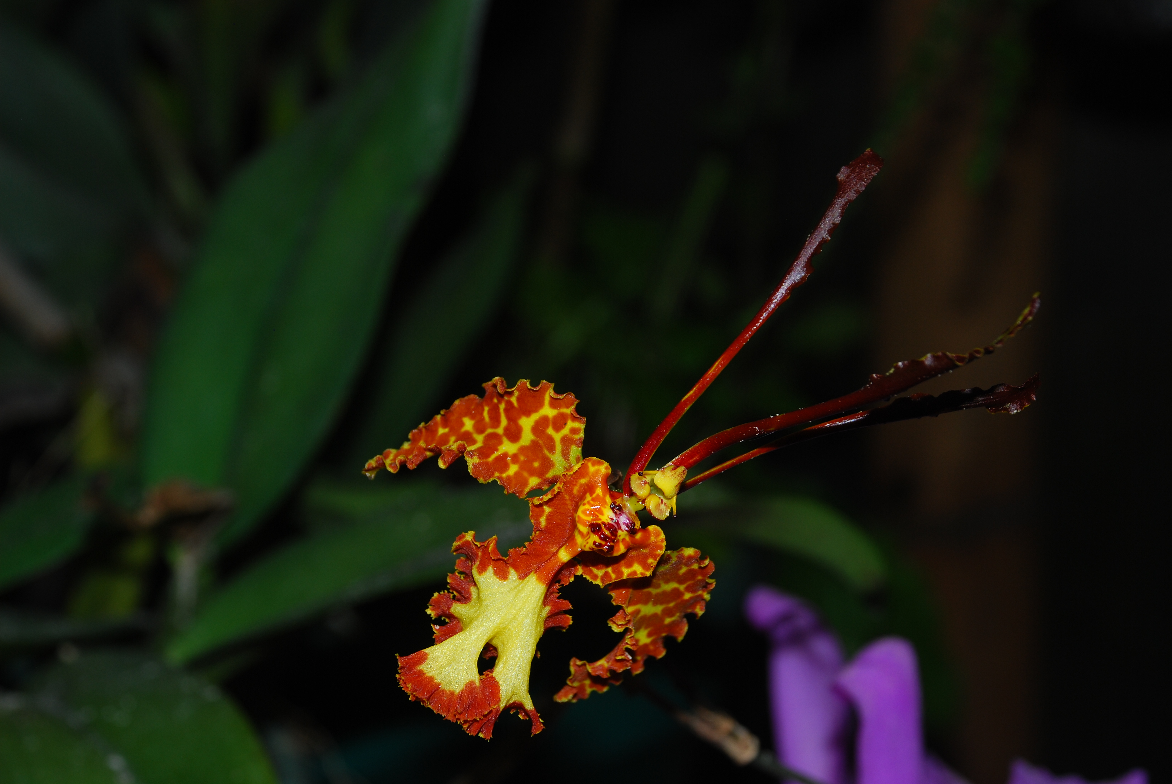 Psychopsis krameliana